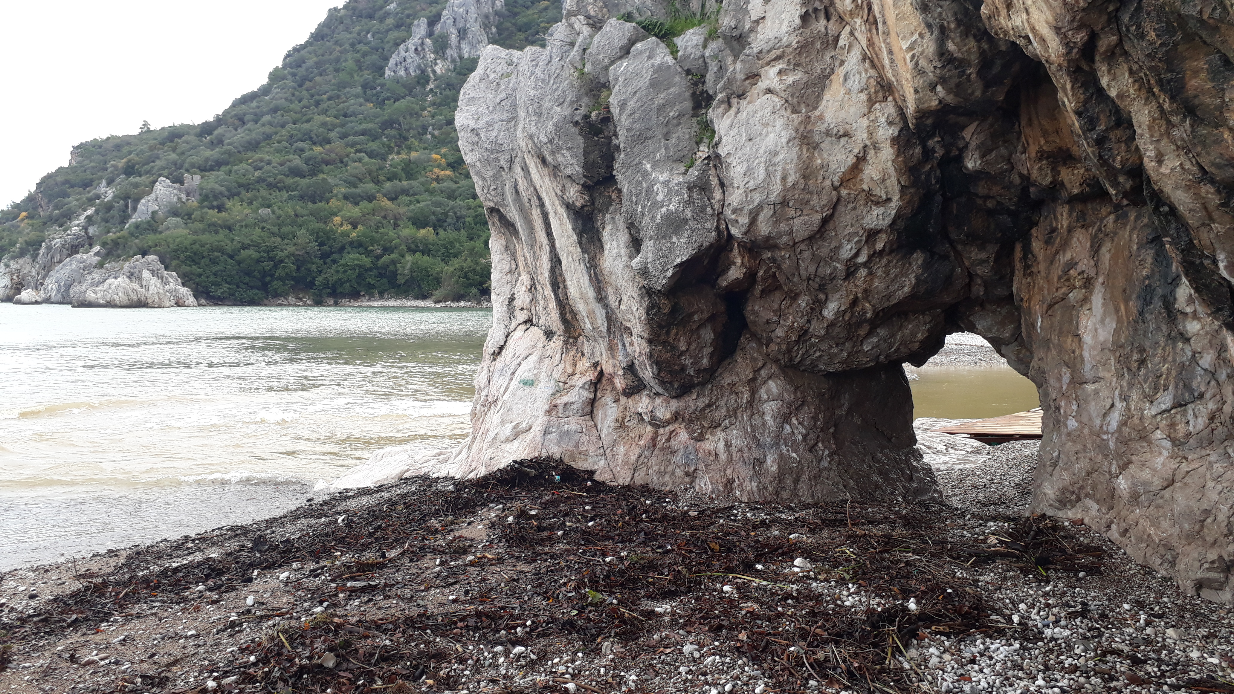 The image shows the entrance from the beach to the valley of Olympos (TR)